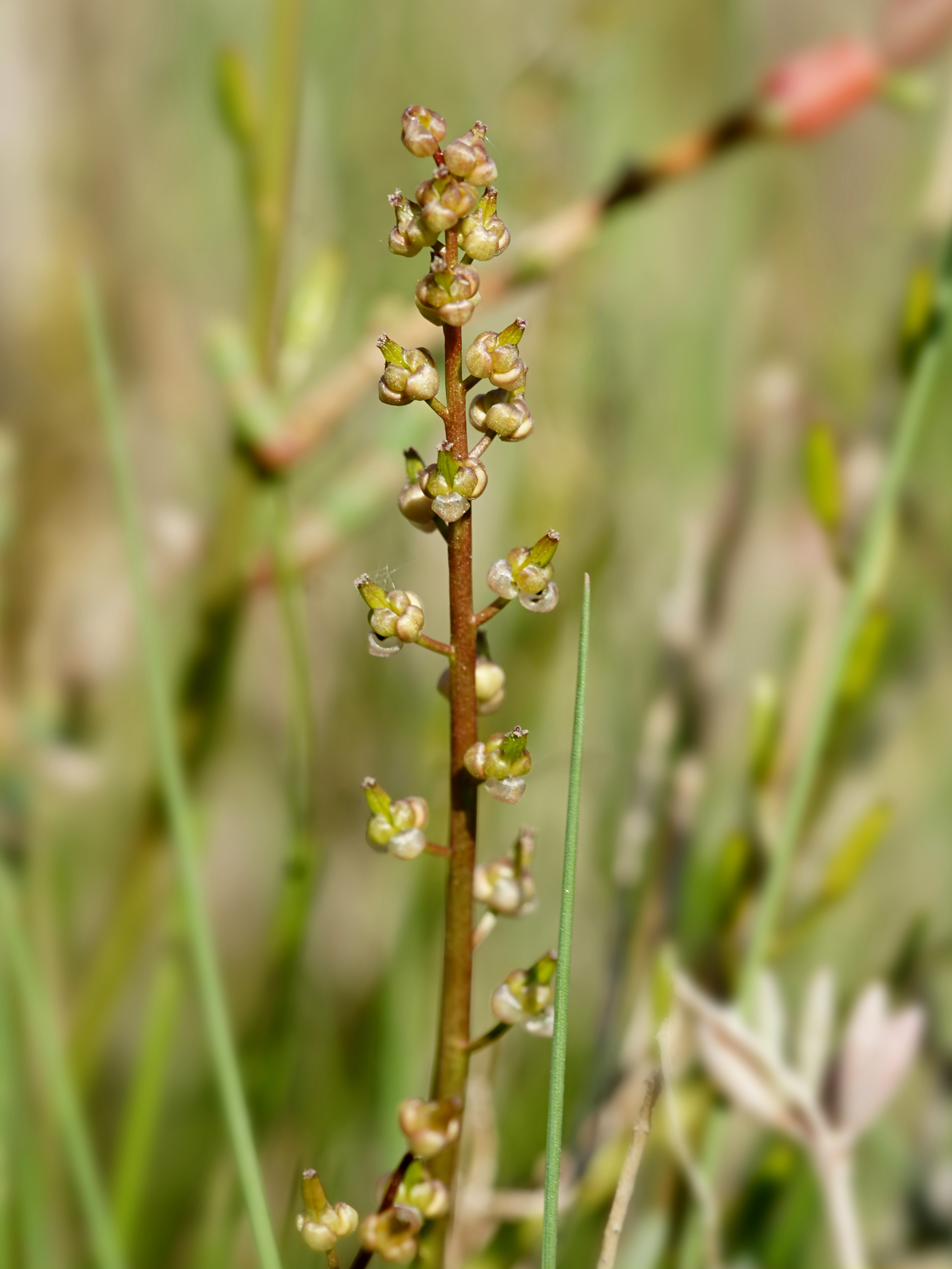 Barrelieri's Arrowgrass in the Camargue, France.